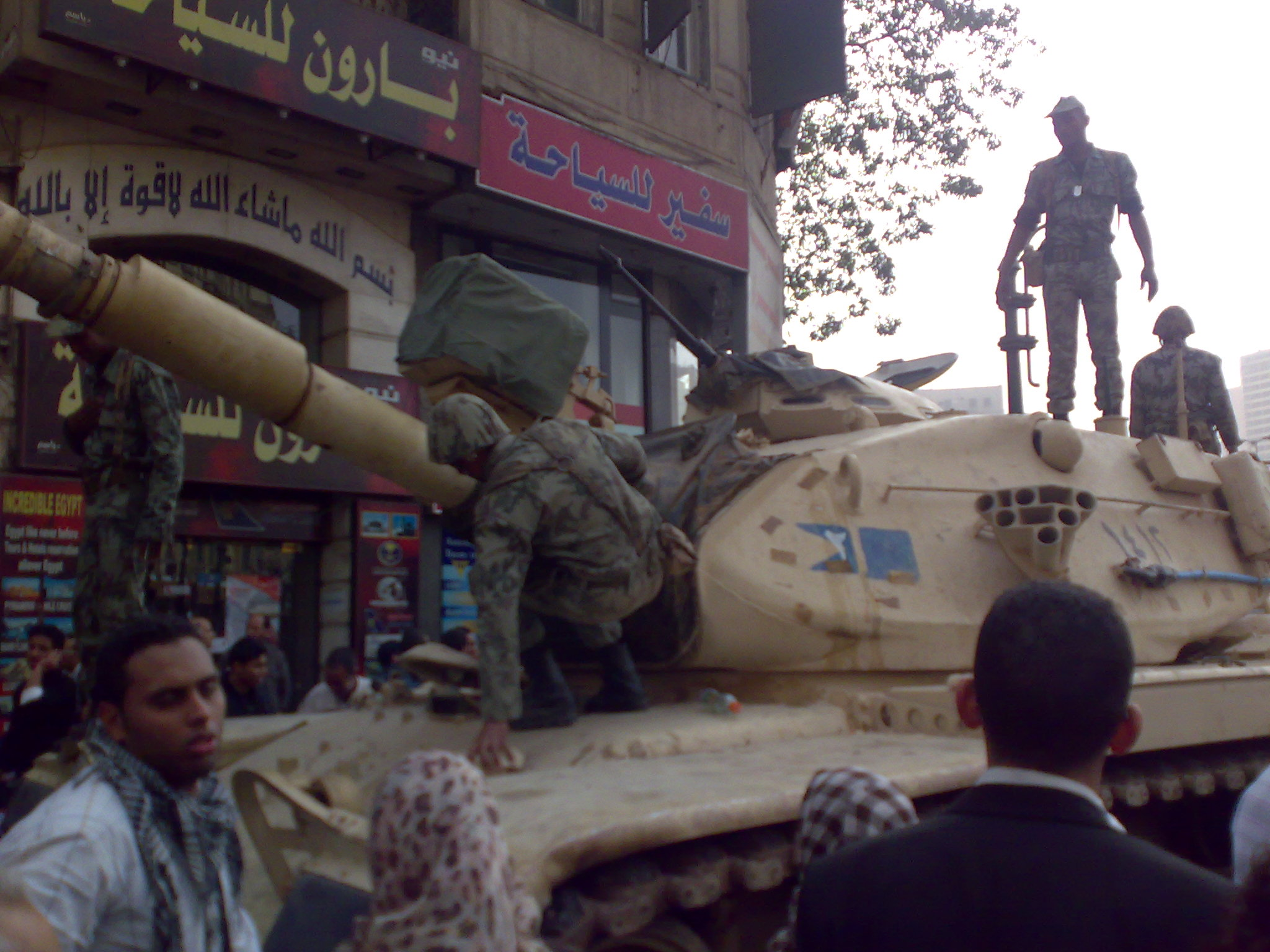 29 January 2011 Photographed by: Ramy Raoof